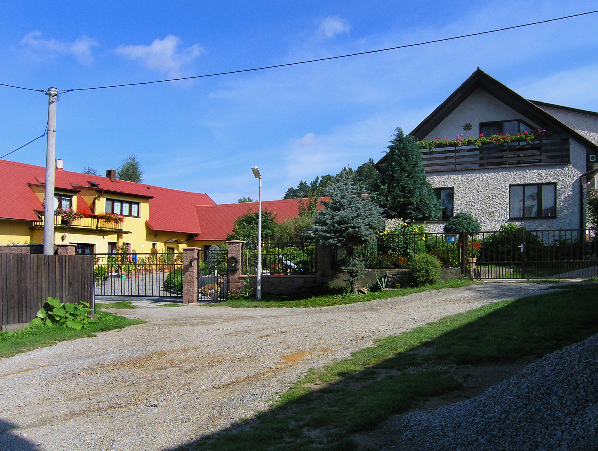 Common in Křemení, part of Chotýšany village, Czech Republic